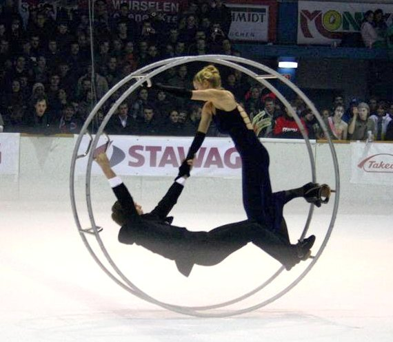 Rhönrad-Show by RollAix Show Turn Group at the Ice hockey competition Uni-Cup 2009 of the University Sports Centre of Aachen University for the ThyssenKrupp-Trophy, Aachen, Germany